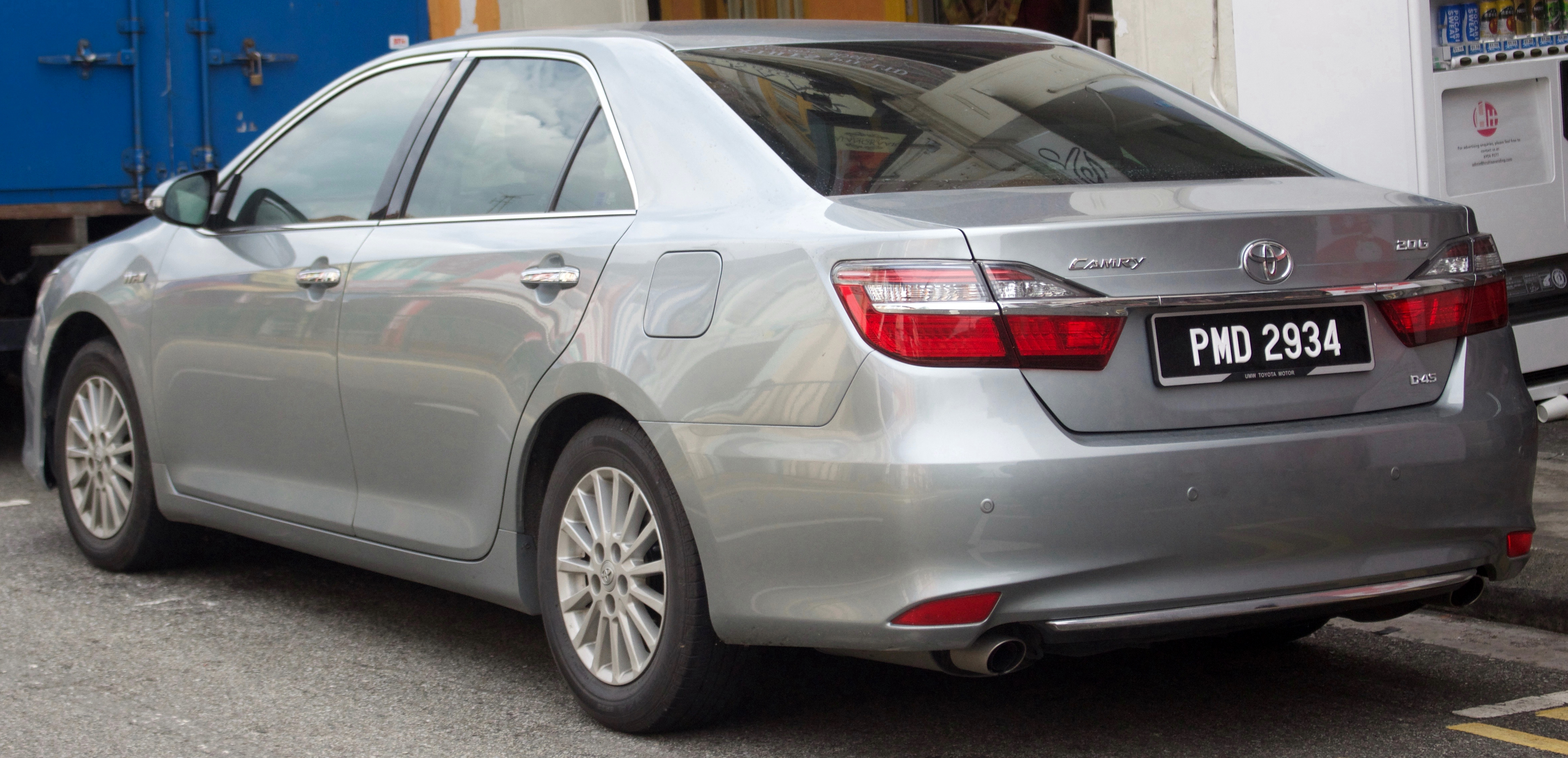 2016 Toyota Camry (XV50) 2.0G D-4S sedan. Photographed in Singapore.